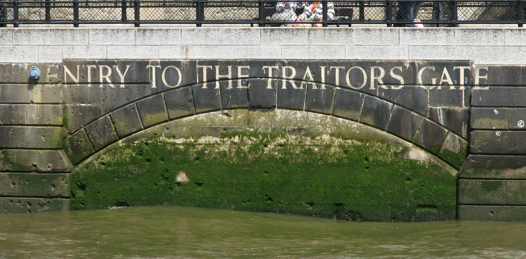 The bricked off traitors' gate as seen from a Thames river tour boat.